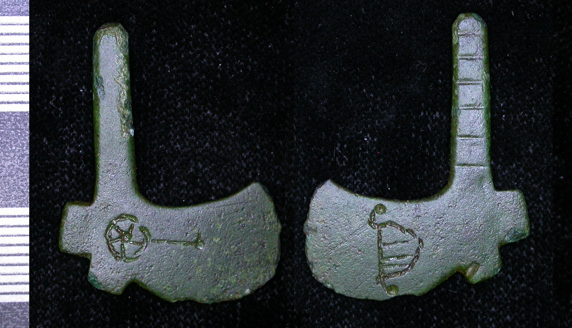 Roman copper alloy votive axe, 29mm long, 23mm wide and 2mm thick. The object is in good condition and weighs 2.58grams. The object consists of a rectangular sectioned shaft which is decorated on one side with transverse incised lines. The axe head is sub rectangular in form and curves downwards, so that it has a point to its lower outer edge. It is decorated on both sides, one side holds a wheel like motif on a 'stand'. The other side (which also has the decoration on the shaft) holds a bow like motif consisiting of a semi circle containing a series of incised lines and with spiral like terminals at its two corners. There are only two similar axes on the database, BUC-321F77 is of exactly the same form, but is is not decorated.